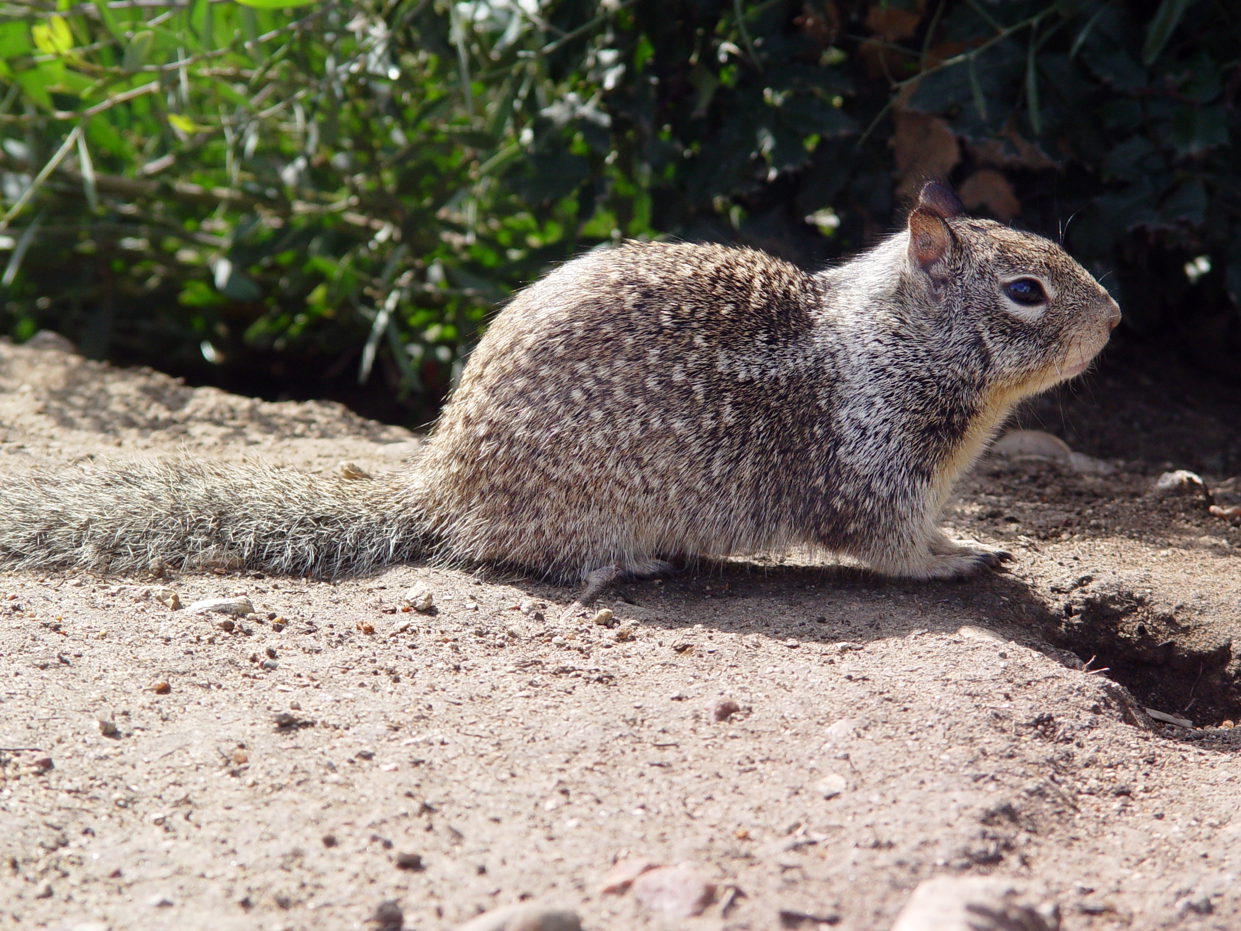 California Ground Squirrel (Spermophilus beecheyi) pair. Taken in Thousand Oaks, California.